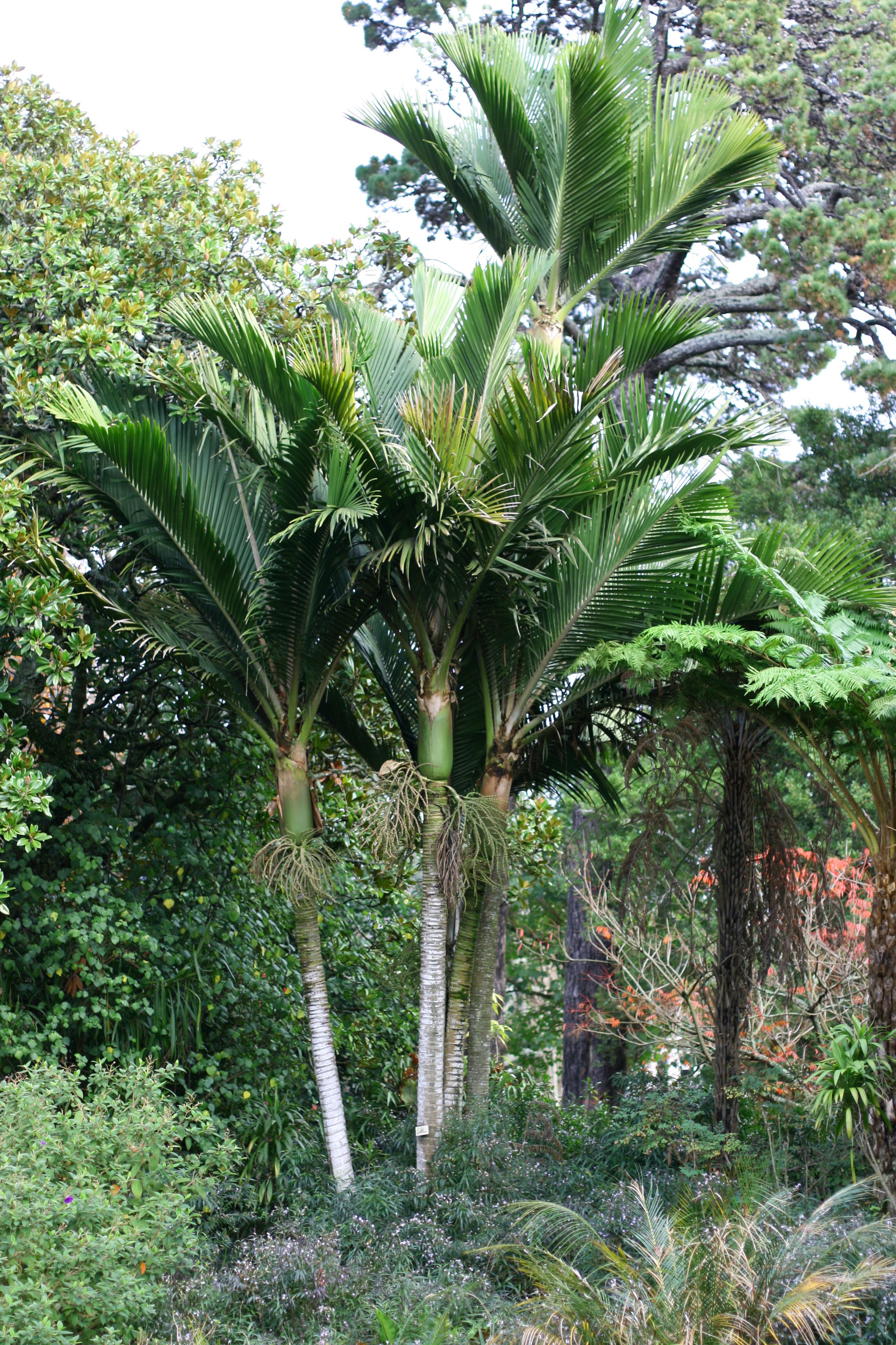 Rhopalostylis baueri, Kermadec Nikau, University of Auckland, New Zealand.